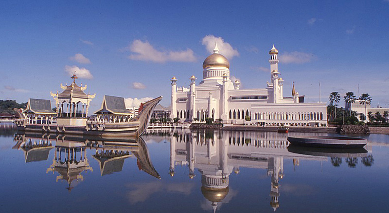 The view of the Sultan Omar Ali Saifuddin Mosque with the ceremonial ship